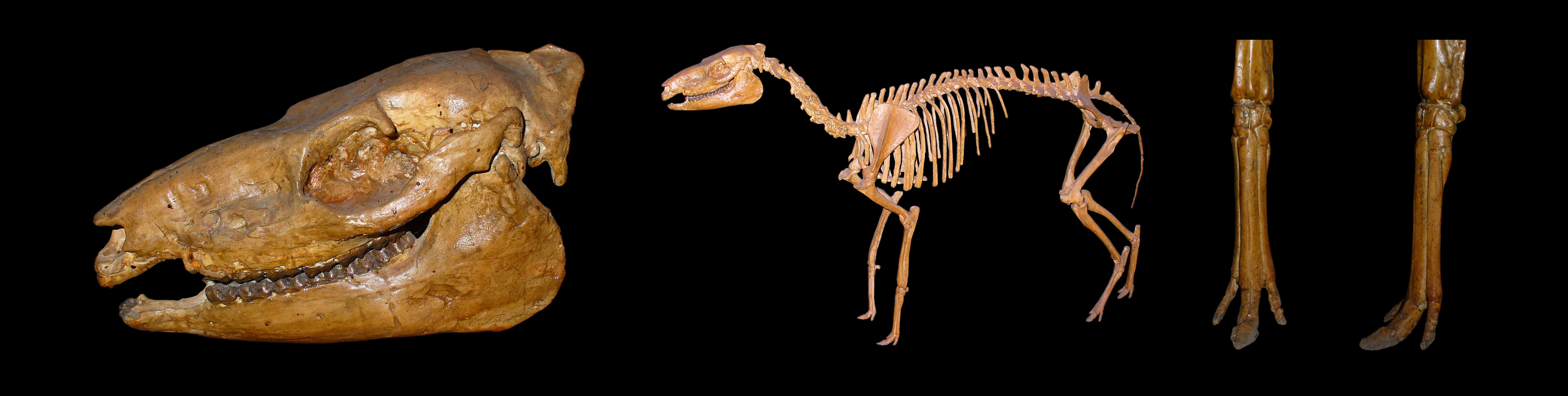 Mesohippus, Equidae; Oligocene, USA (Replica of a specimen of the American Museum of Natural History, New York); Cranium, complete skeleton, left forefoot frontal, left forefoot lateral; Staatliches Museum für Naturkunde Karlsruhe, Germany.